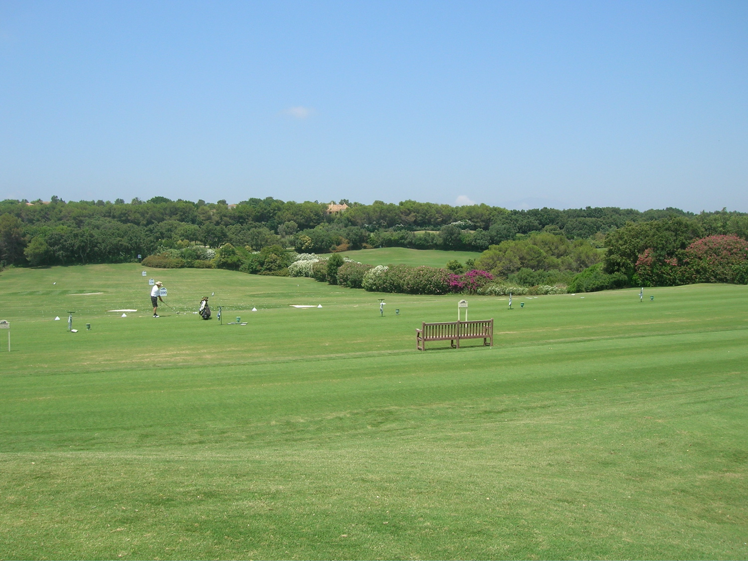 Picture of the Driving Range looking from the clubhouse at Valderrama Golf Course taken by Andrew Hale during the Summer of 2006.